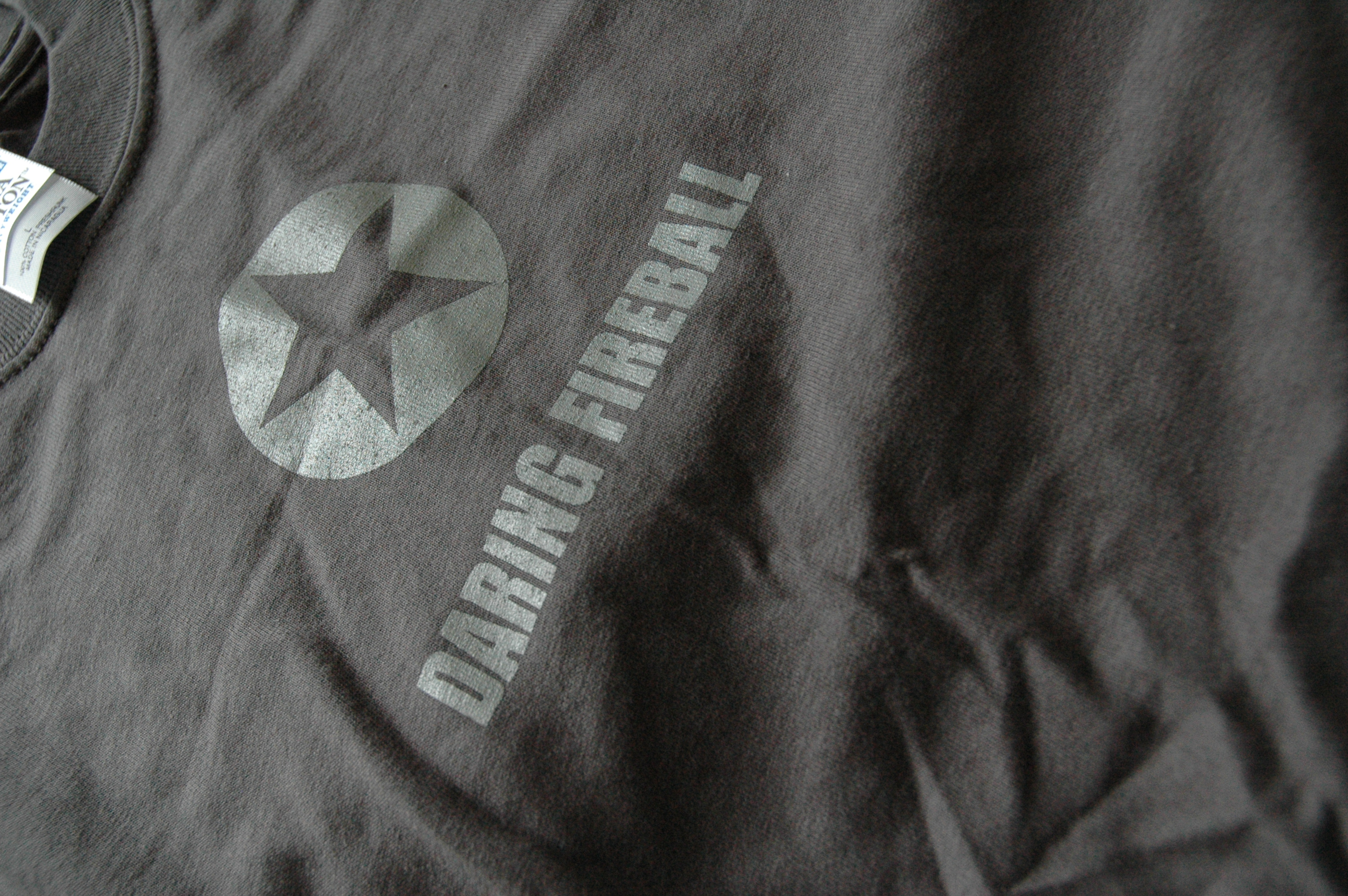 An original Daring Fireball T-shirt.